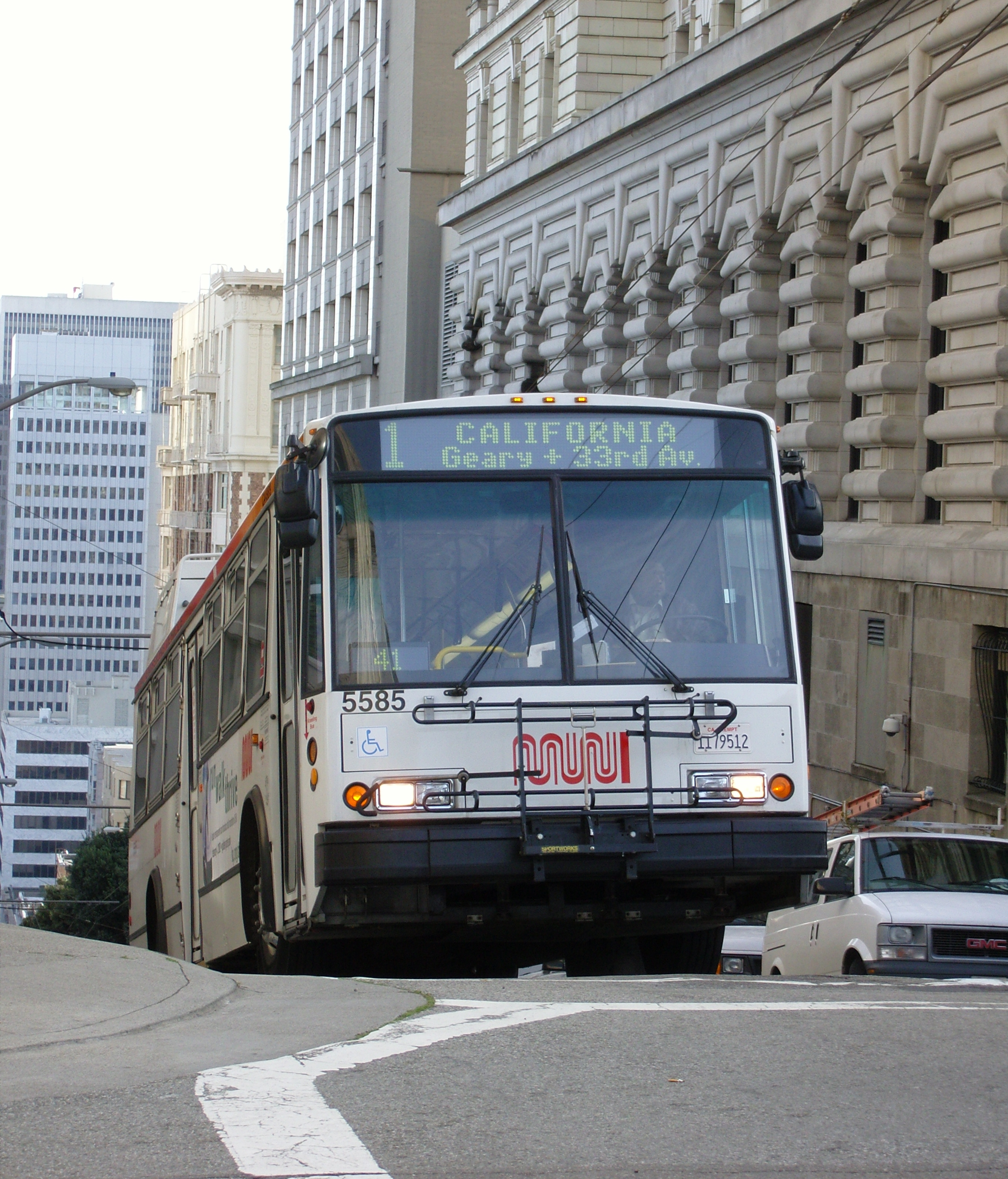 A trolleybus on Nob Hill, San Francisco, California.